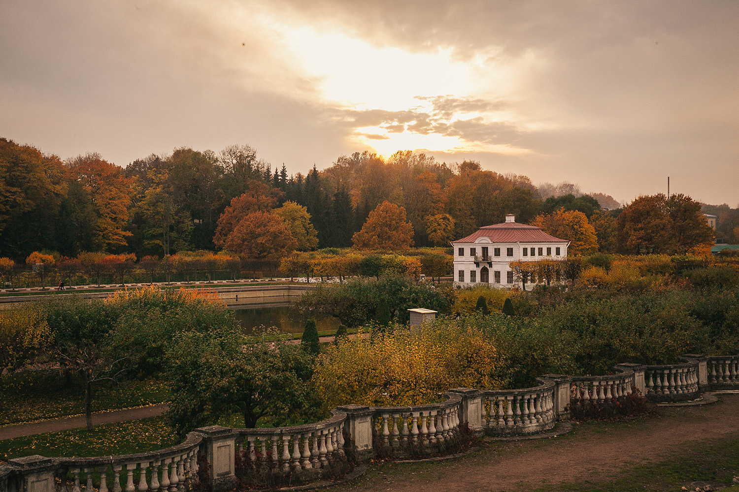 Marly Palace (Peterhof)